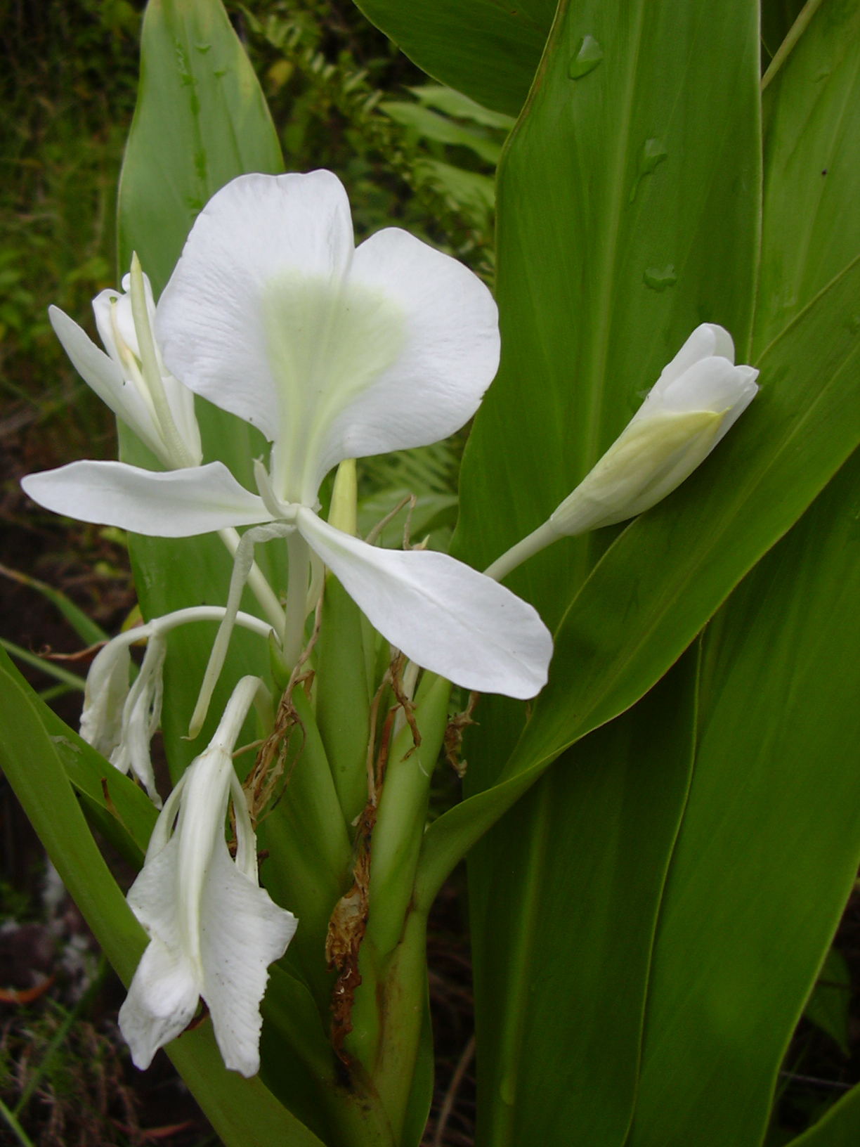 Hedychium coronarium (flowers). Location: Maui, Hanawi stream